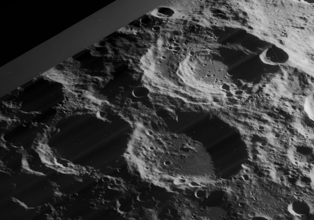 Oblique view of craters Boussingault (above right), Helmholtz (below right), and Neumayer (below left, mostly in shadow), facing southwest, on the moon. Edge of original photo is in upper left.